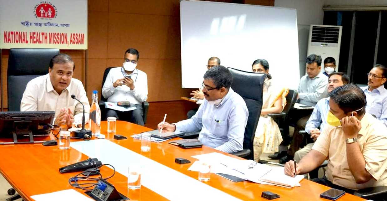 Covid-19 pandemic emergency response meeting in Assam chaired by the Assam Health Minister: Himanta Biswa Sarma অসমীয়া: অসমত ক'ভিড-১৯ বিশ্বমাৰীৰ অকস্মাত্ সঙ্কটৰ প্রতিবেদন বৈঠকত অসমৰ স্বাস্থ্য মন্ত্ৰী: হিমন্ত বিশ্ব শৰ্মা সভাপতিত্ব কৰাৰ এটি দৃশ্য